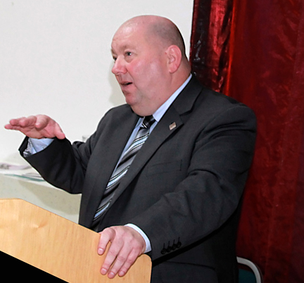 Cllr Joe Anderson, Leader, Liverpool City Council